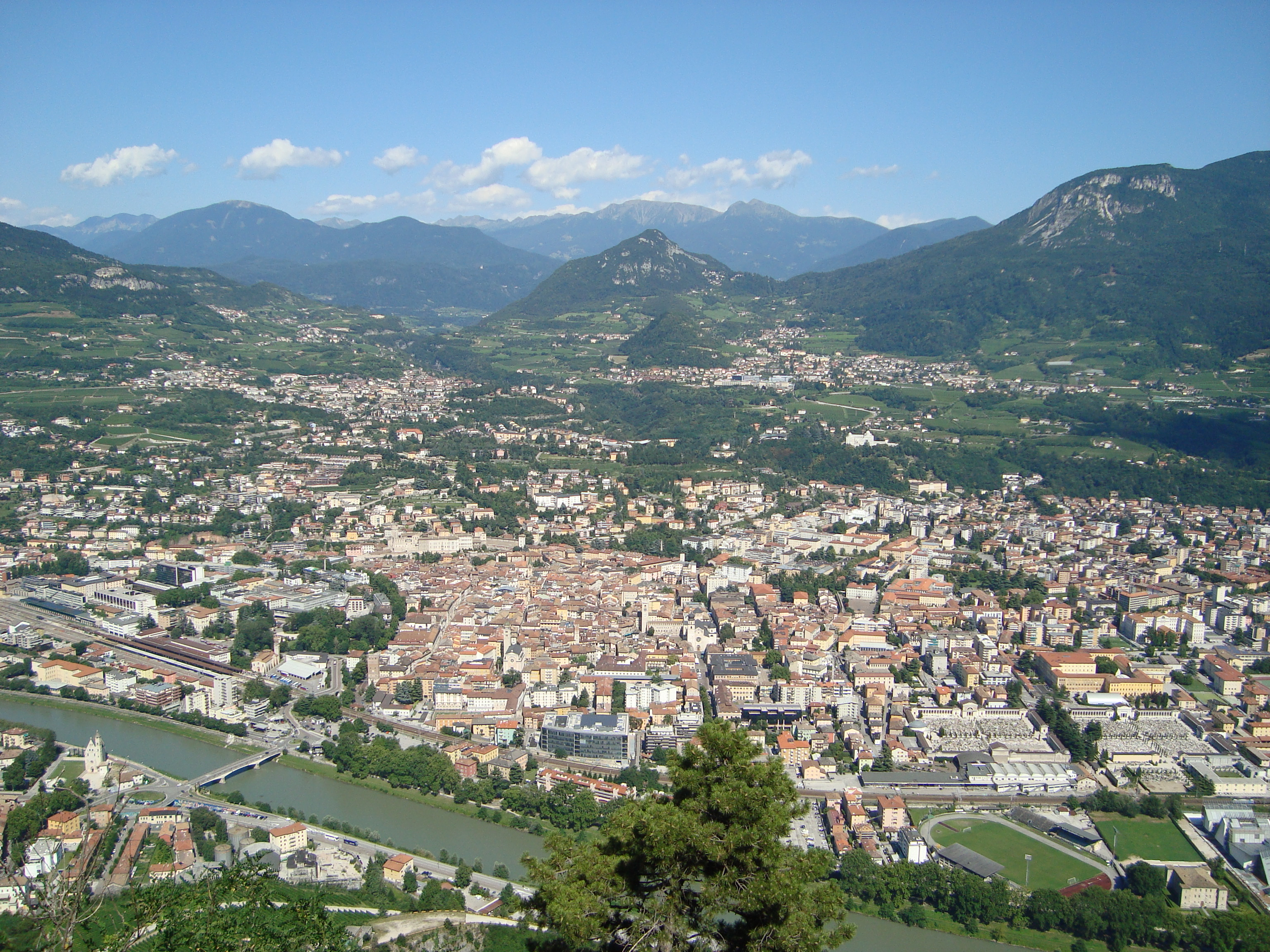 Trento